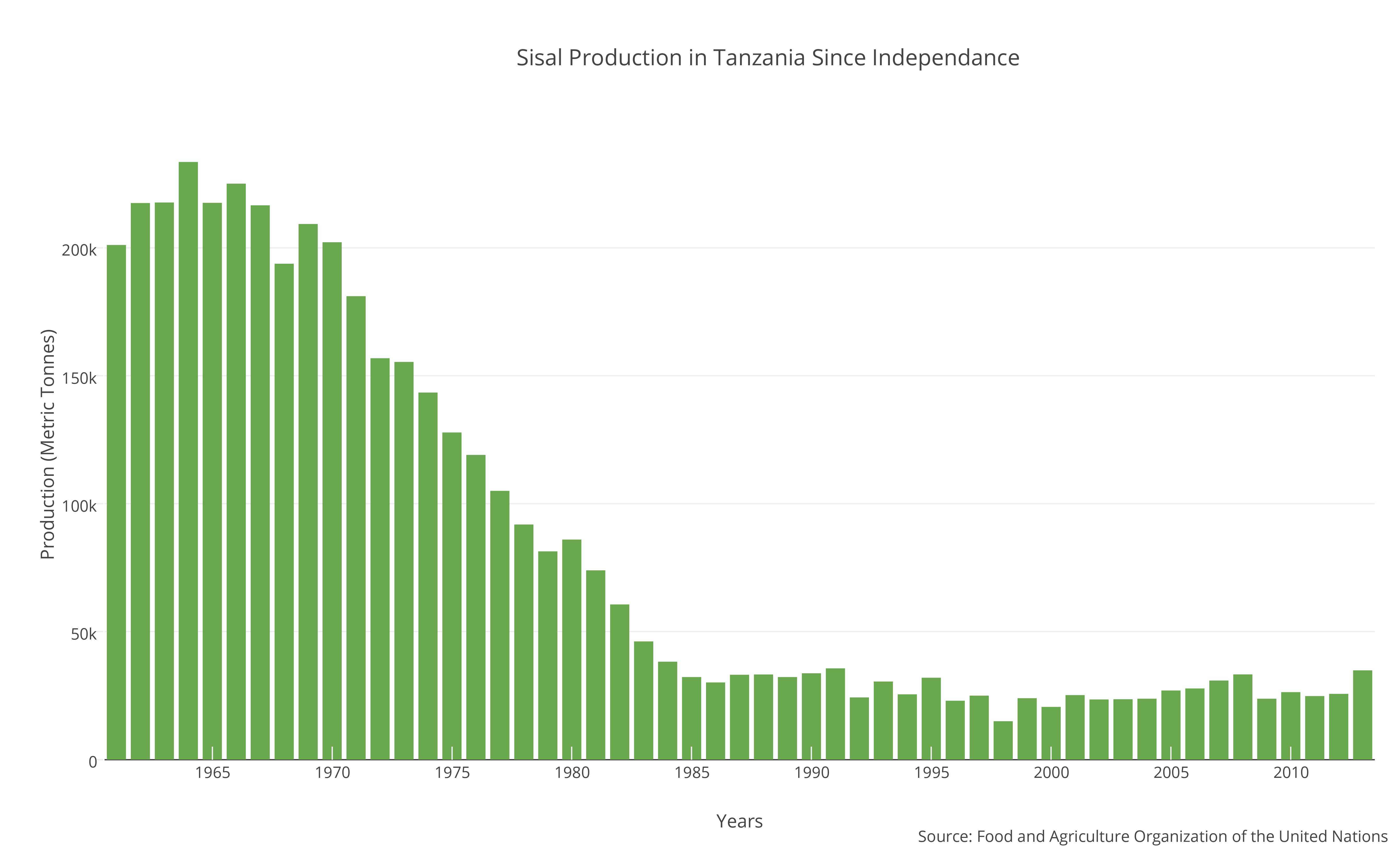 Sisal production in metric tonnes in Tanzania since independence 1961-2013